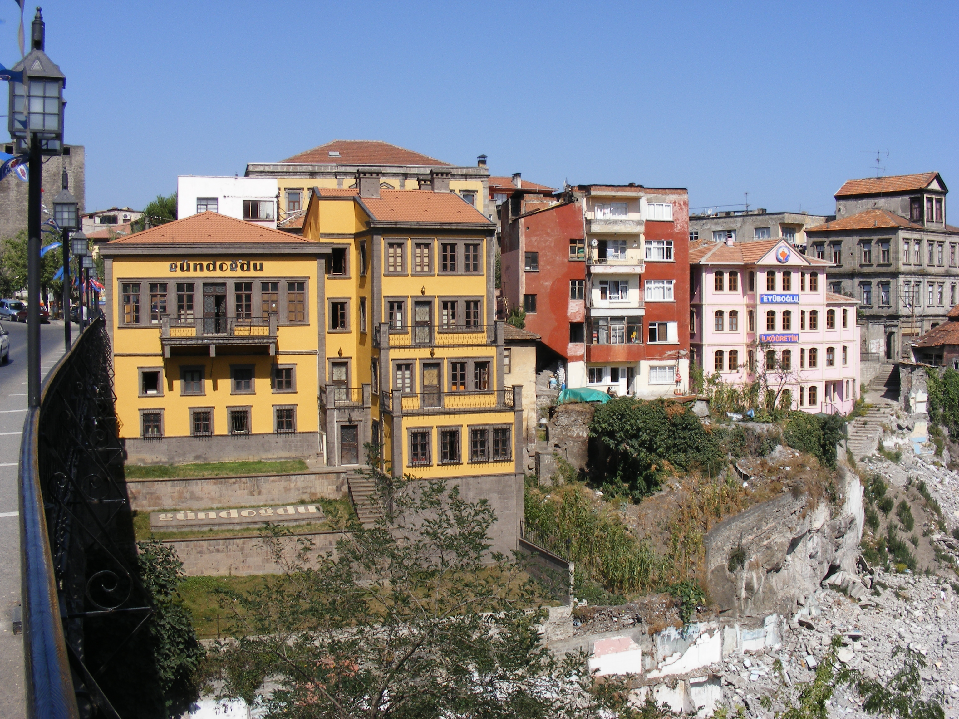 View of Ortahisar district, Trabzon